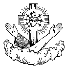 Emblem of congregation of Capuchin Tertiaries, founded by Lluís d'Amigó, from a book from 1905